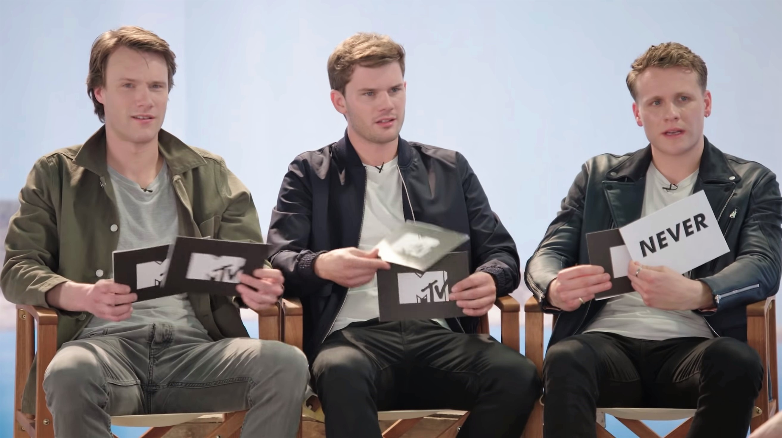 Mamma Mia! Here We Go Again Cast Play Never Have I Ever: ABBA Edition | MTV Movies Left to right: Hugh Skinner, Jeremy Irvine, Josh Dylan. Who’s been FER NANDOs? And who’s found themselves looking for a MAN AFTER MIDNIGHT? Lily James, Jeremy Irvine and the cast of Mamma Mia 2 reveal all as they play a hilarious game of NEVER HAVE I EVER: ABBA Edition! Subscribe to MTV for more great videos and exclusives! Get social with MTV @ 💋 Twitter: 🍺 Instagram: 💅 Tumblr: 🍿 Facebook: 🎷 Official